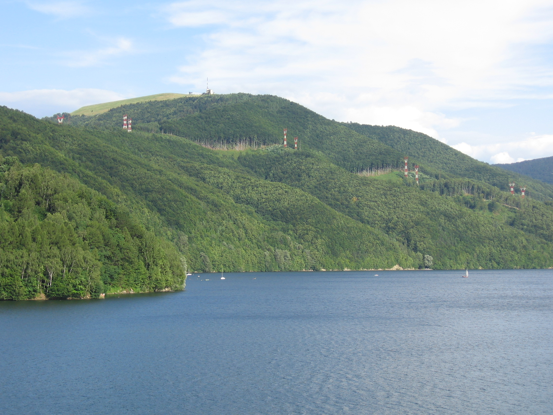 View at mountain Zar and Miedzybrodzkie Lake in Miedzybrodzie Bialskie, Poland